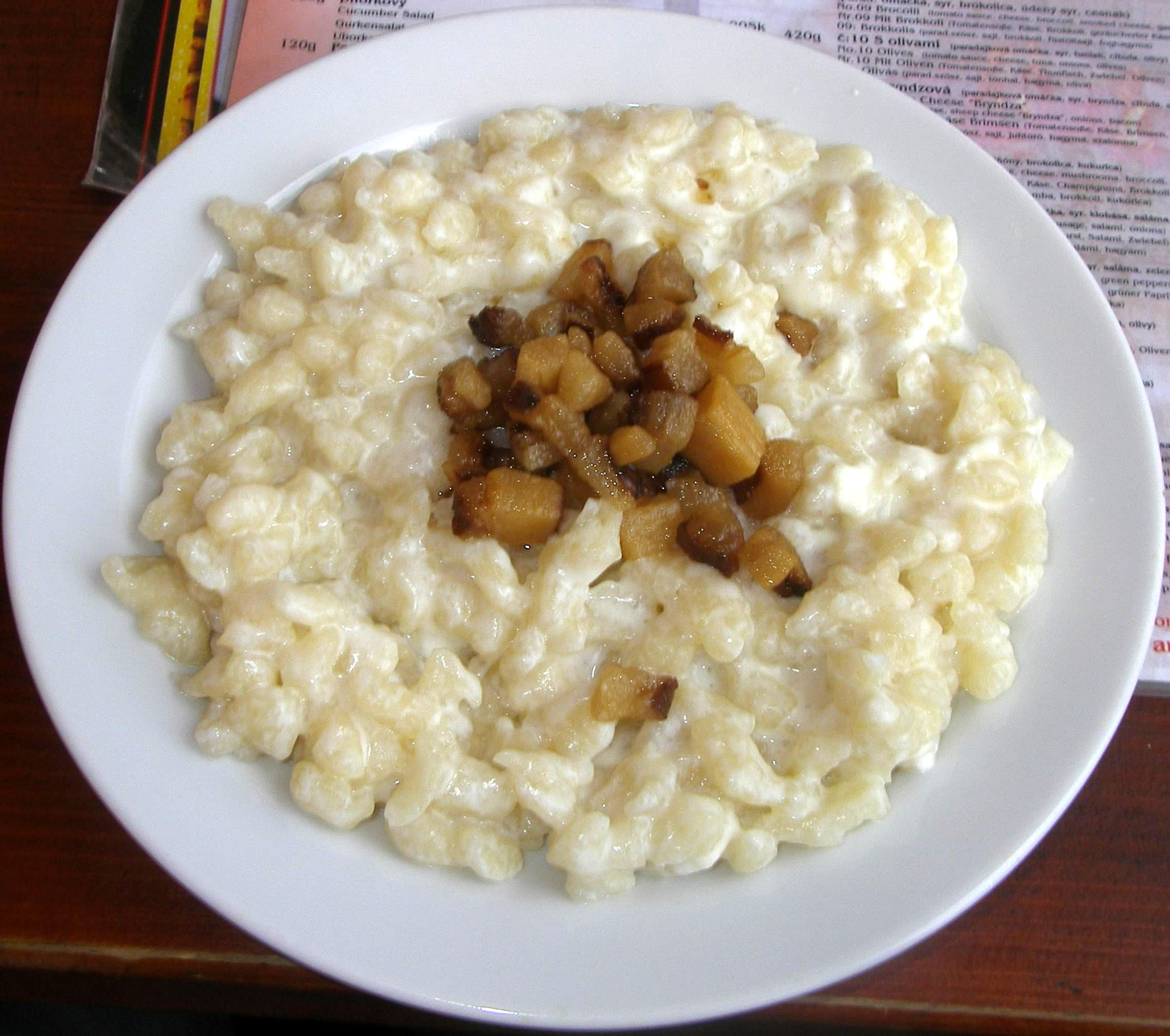 HALUSKY - Slovak National Food